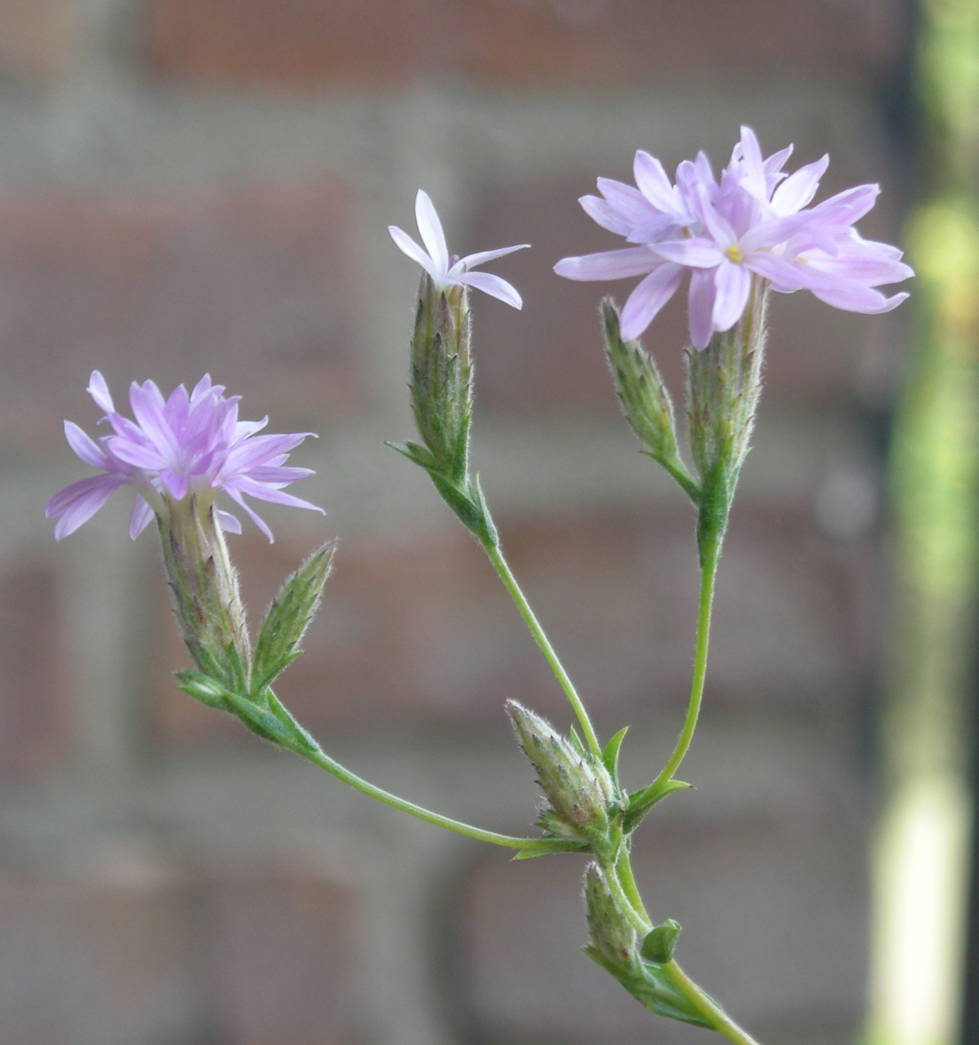 Photo of flower heads of Lessingia leptoclada.